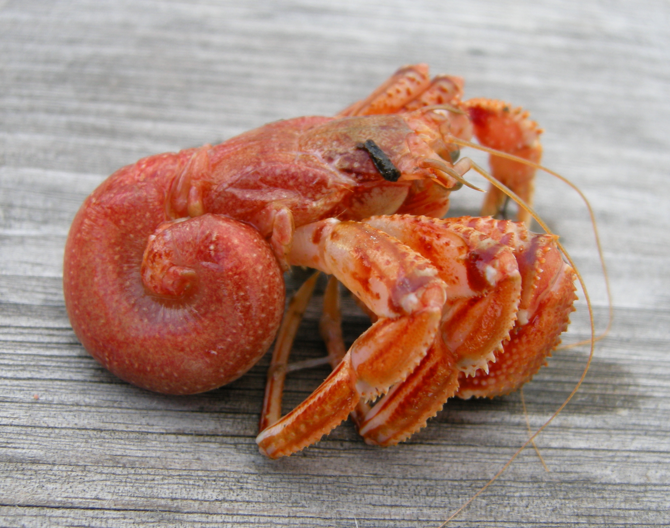 Pagurus bernhardus - Stavern, Norway. On board the boat, it has left its house.